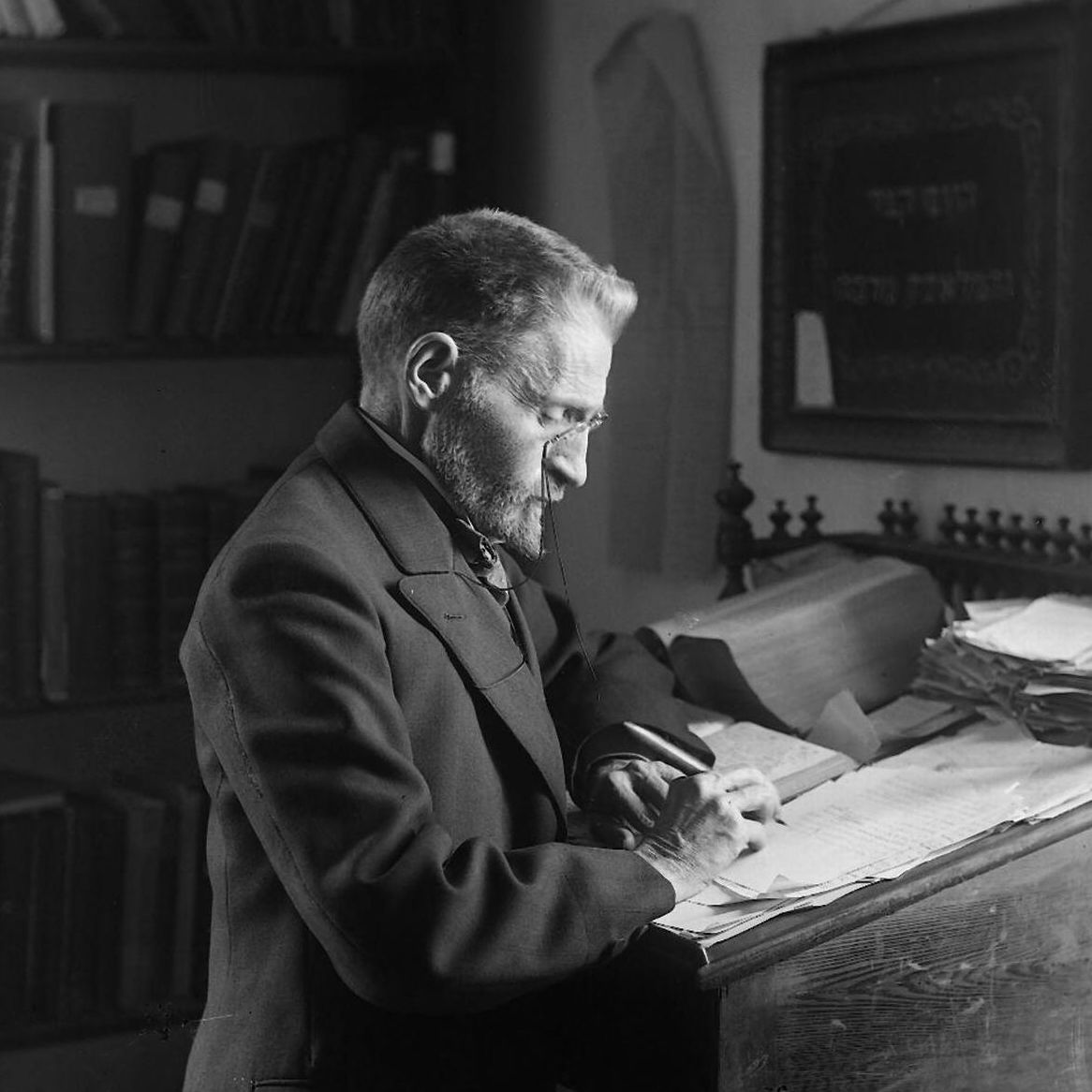 Eliezer in his house in Talpiot neighbourhood.